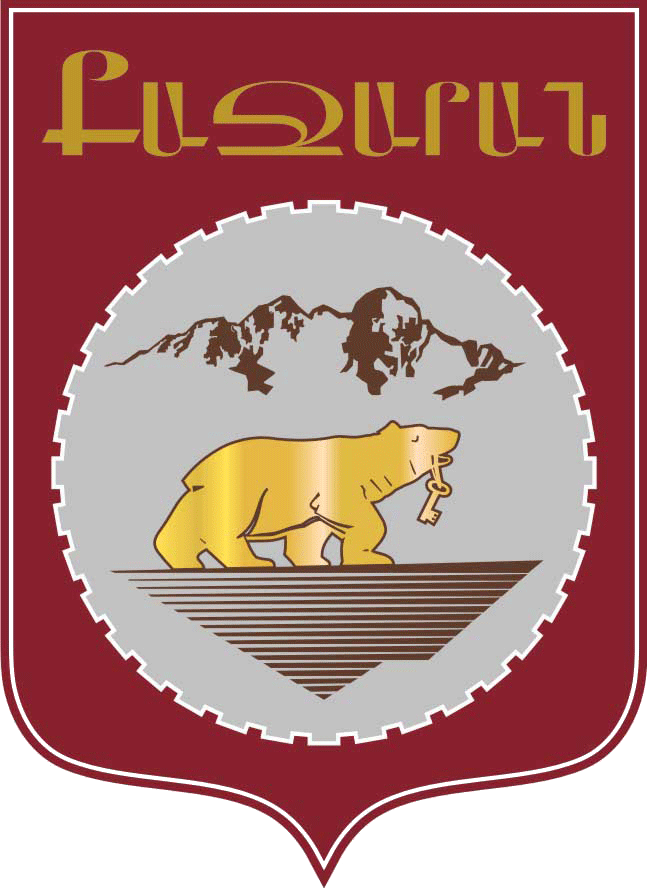 Coat of Arms of Armenian City of Kajaran